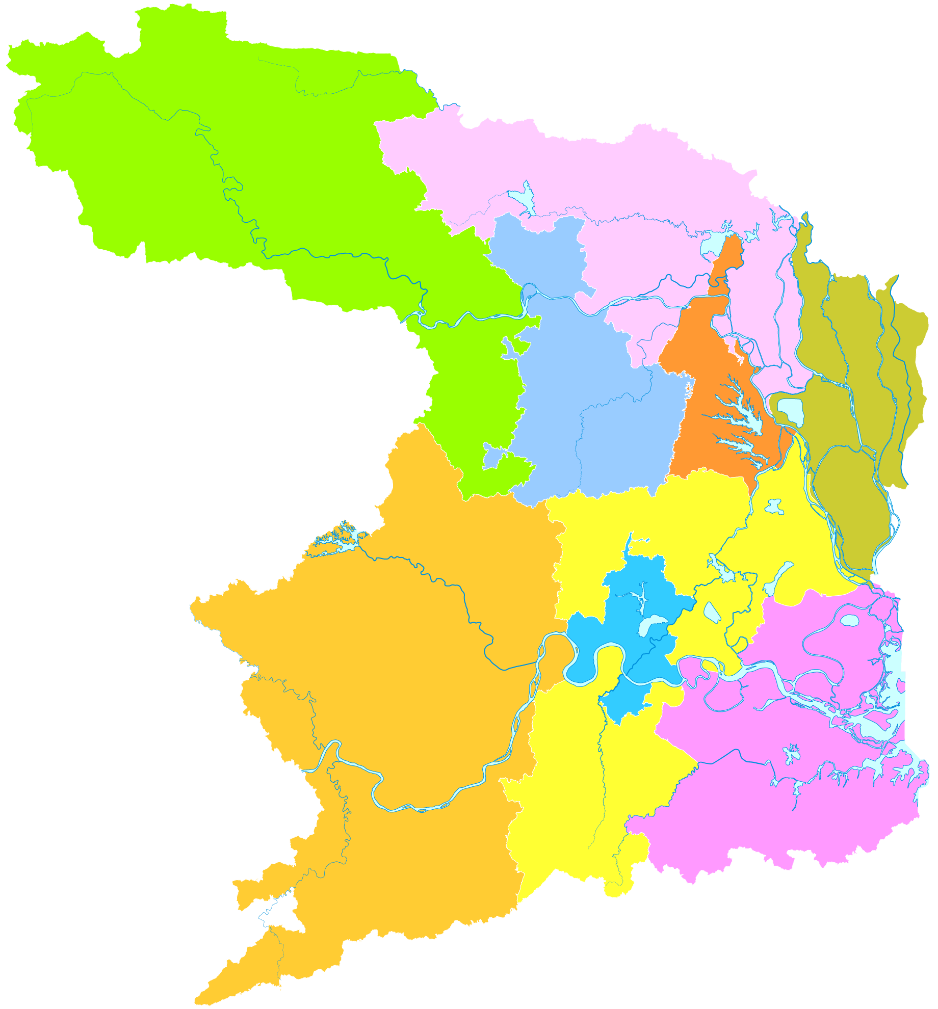 administrative divisions of Changde City, Hunan, China